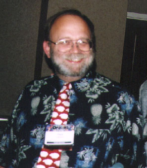 Picture of Frank Chadwick at the 2005 Origins game convention.